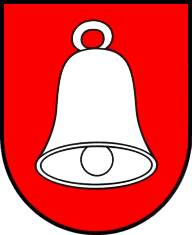 Coat of arms of Spišská Belá, Slovakia